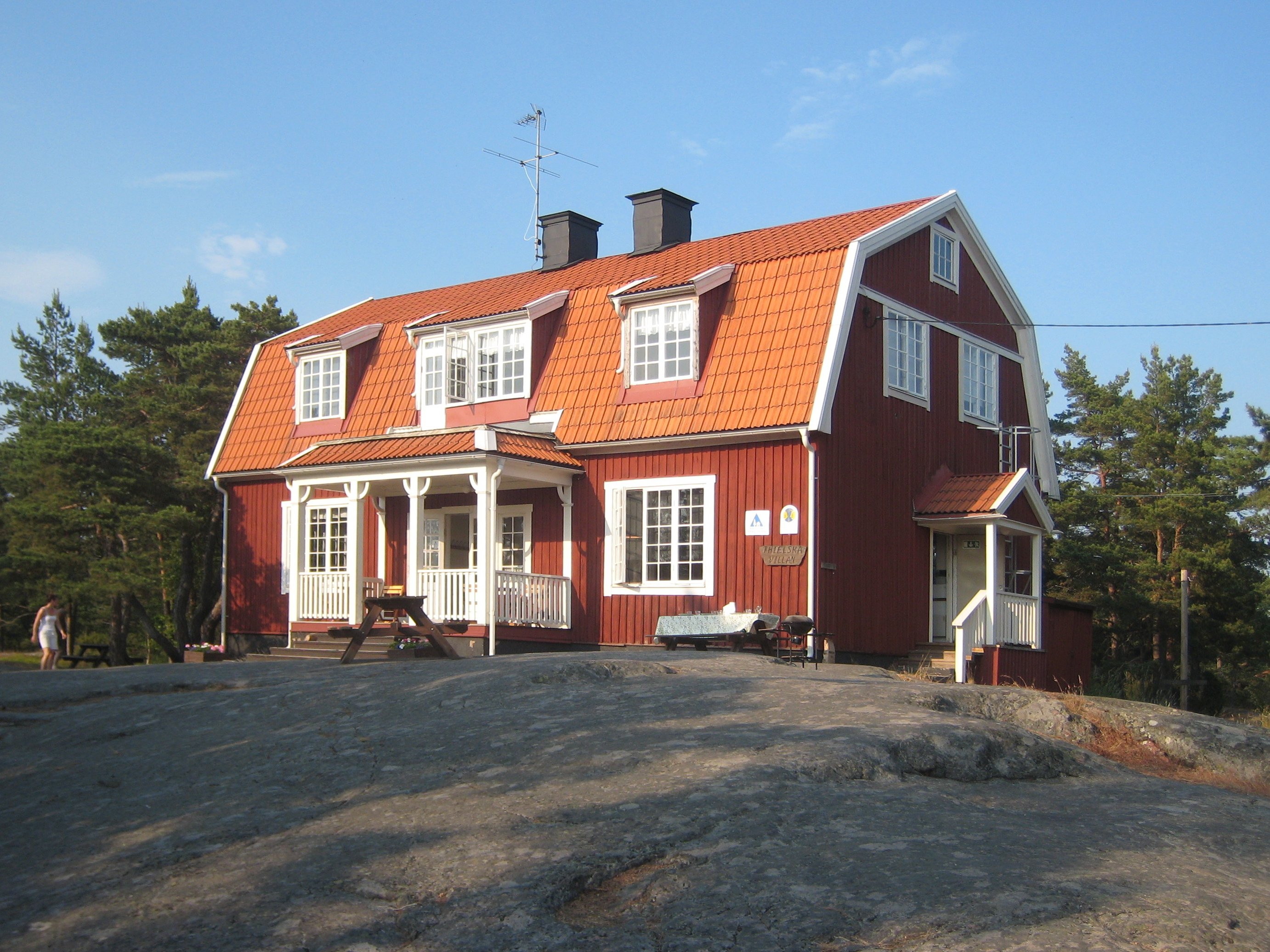 Thielska villan (Ernst Thiels house).